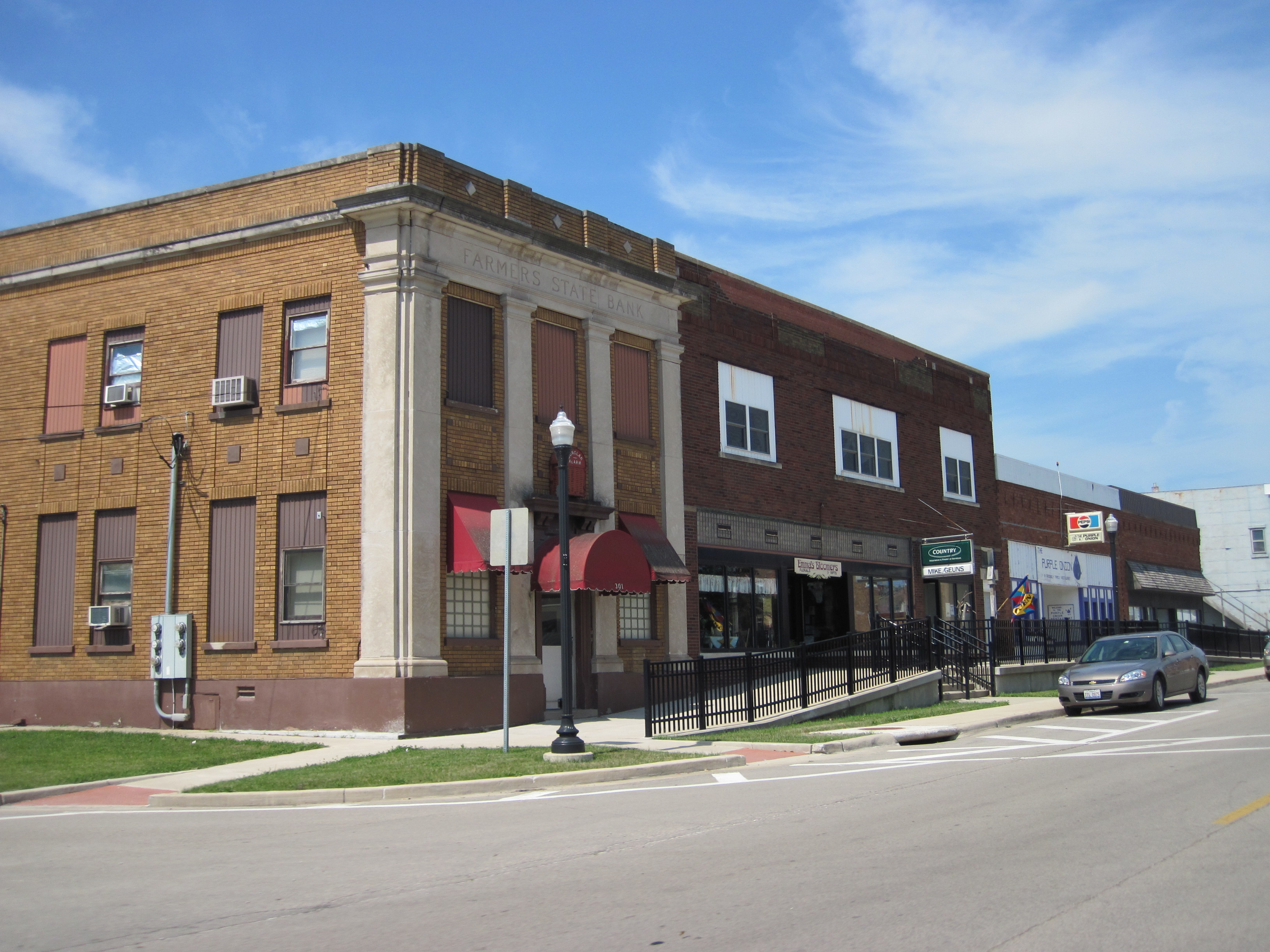 Annawan, Illinois, 2009 Bill Whittaker| (talk|) 12:58, 29 June 2009 (UTC) Summary Annawan, Illinois, 2009 Bill Whittaker (talk) 12:58, 29 June 2009 (UTC)